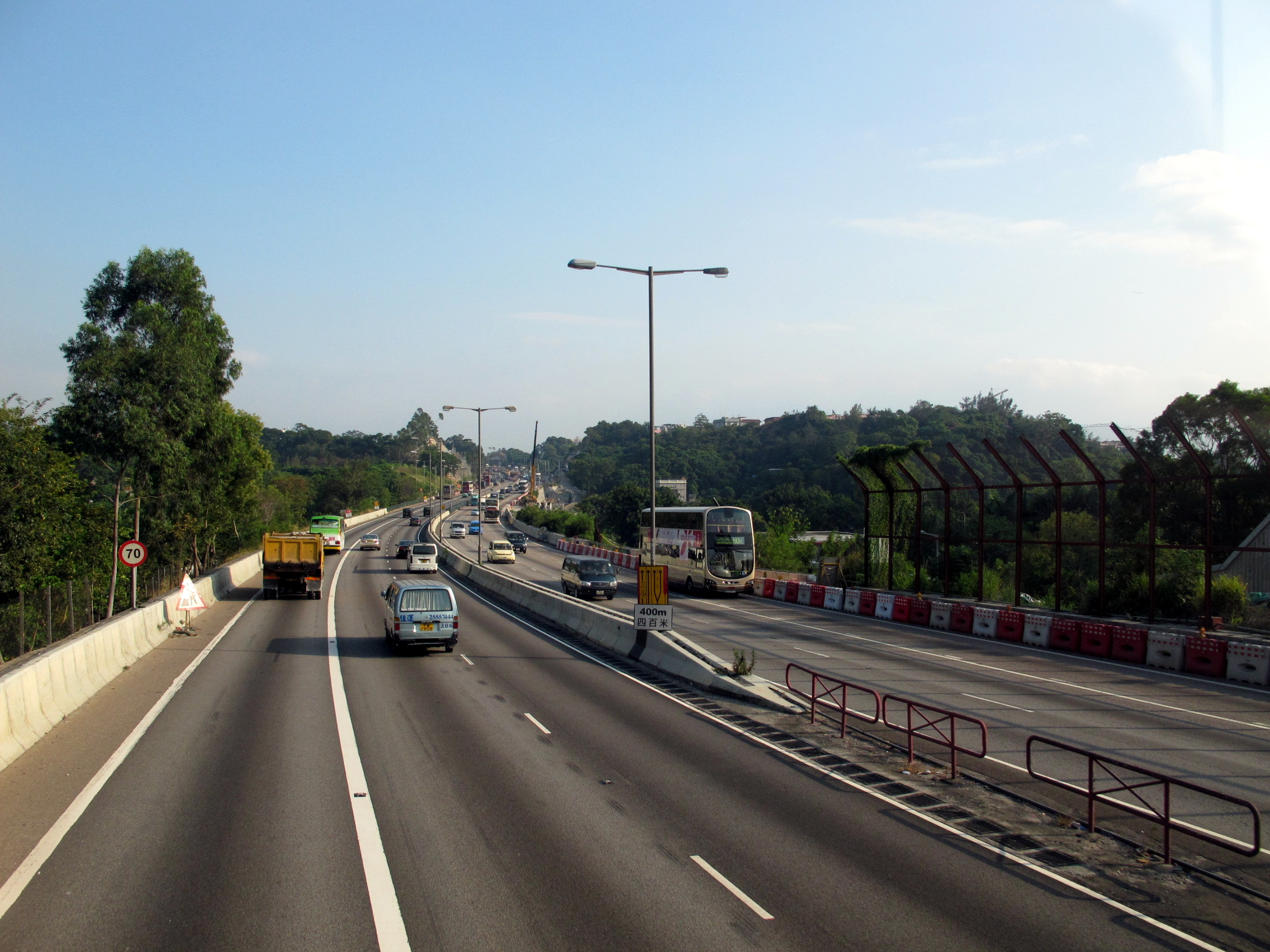 Tuen Mun Road So Kwun Wat Section